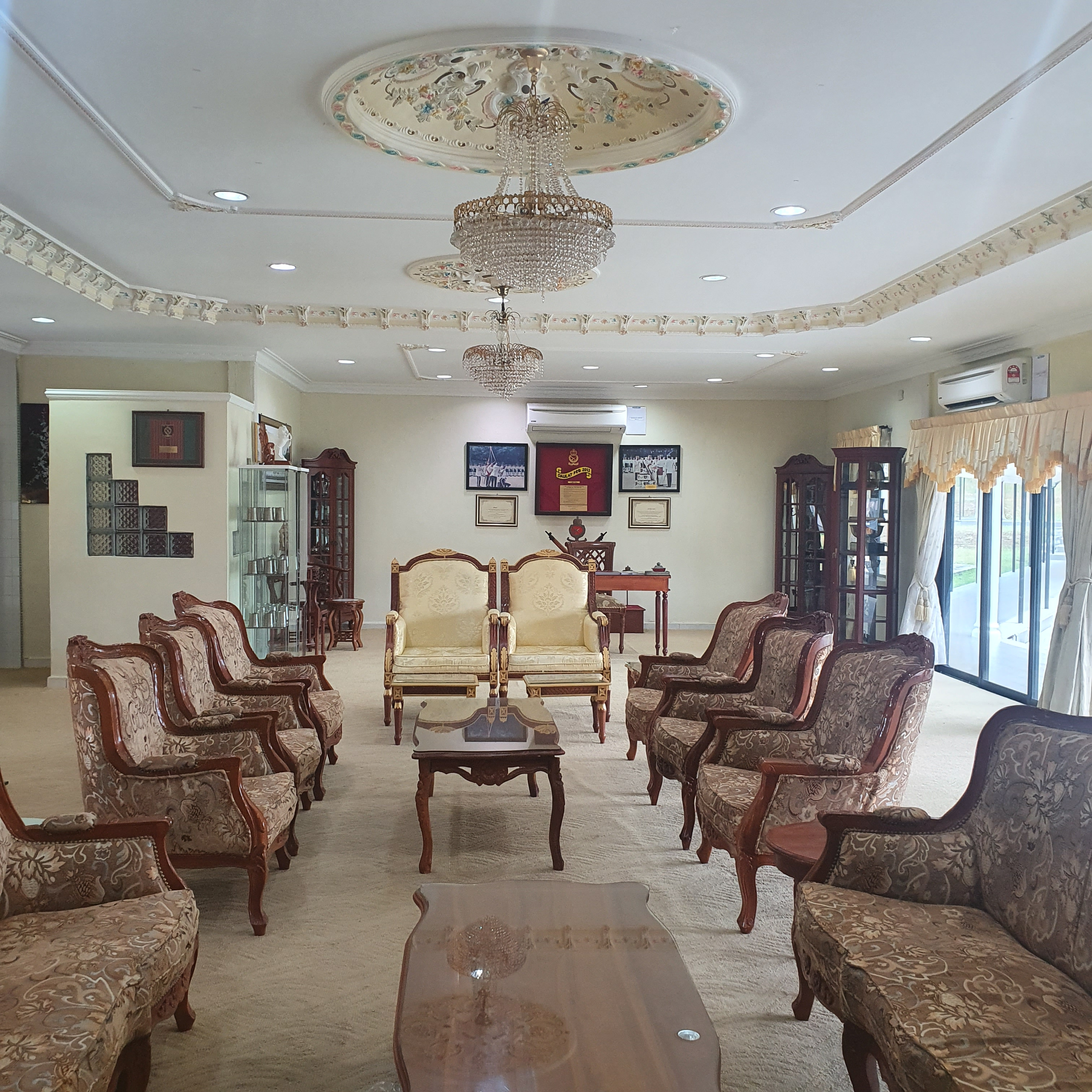 ANTEEROOM